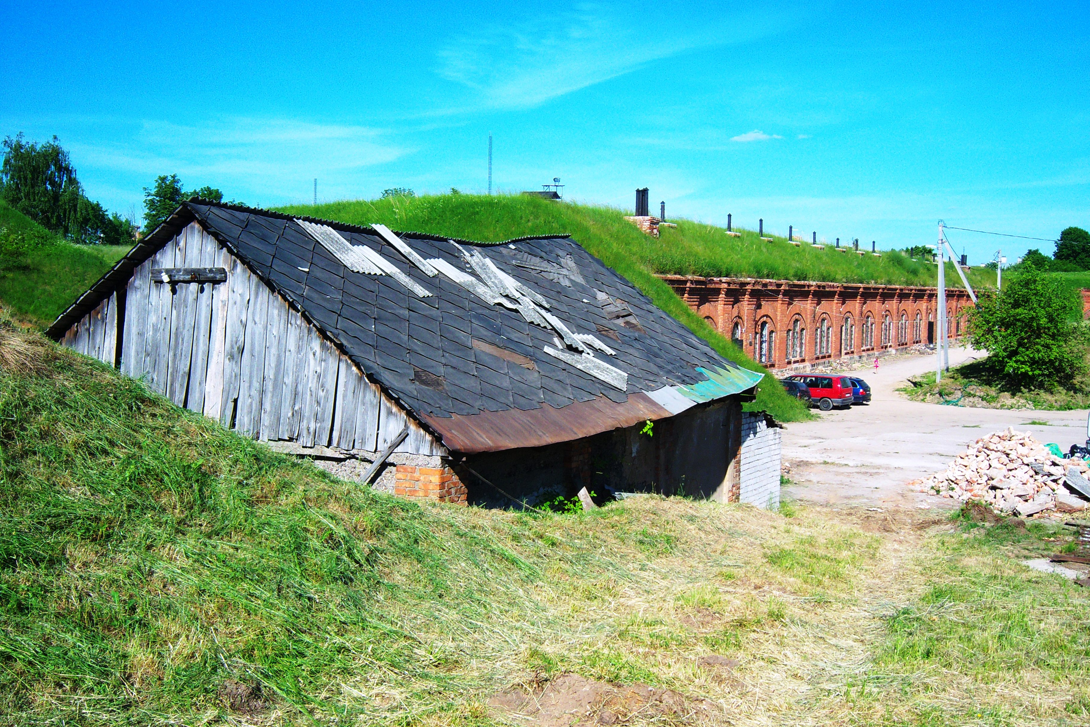 7-th Fort in Kaunas, rear front barracks, Lithuania